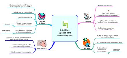 Screenshot do Intelimap